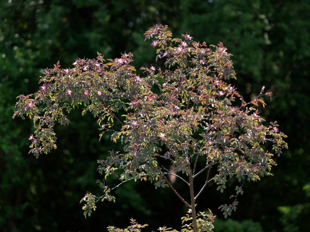 Redleaf Rose, Rosa glauca; picture taken in a garden in Munich/Bavaria